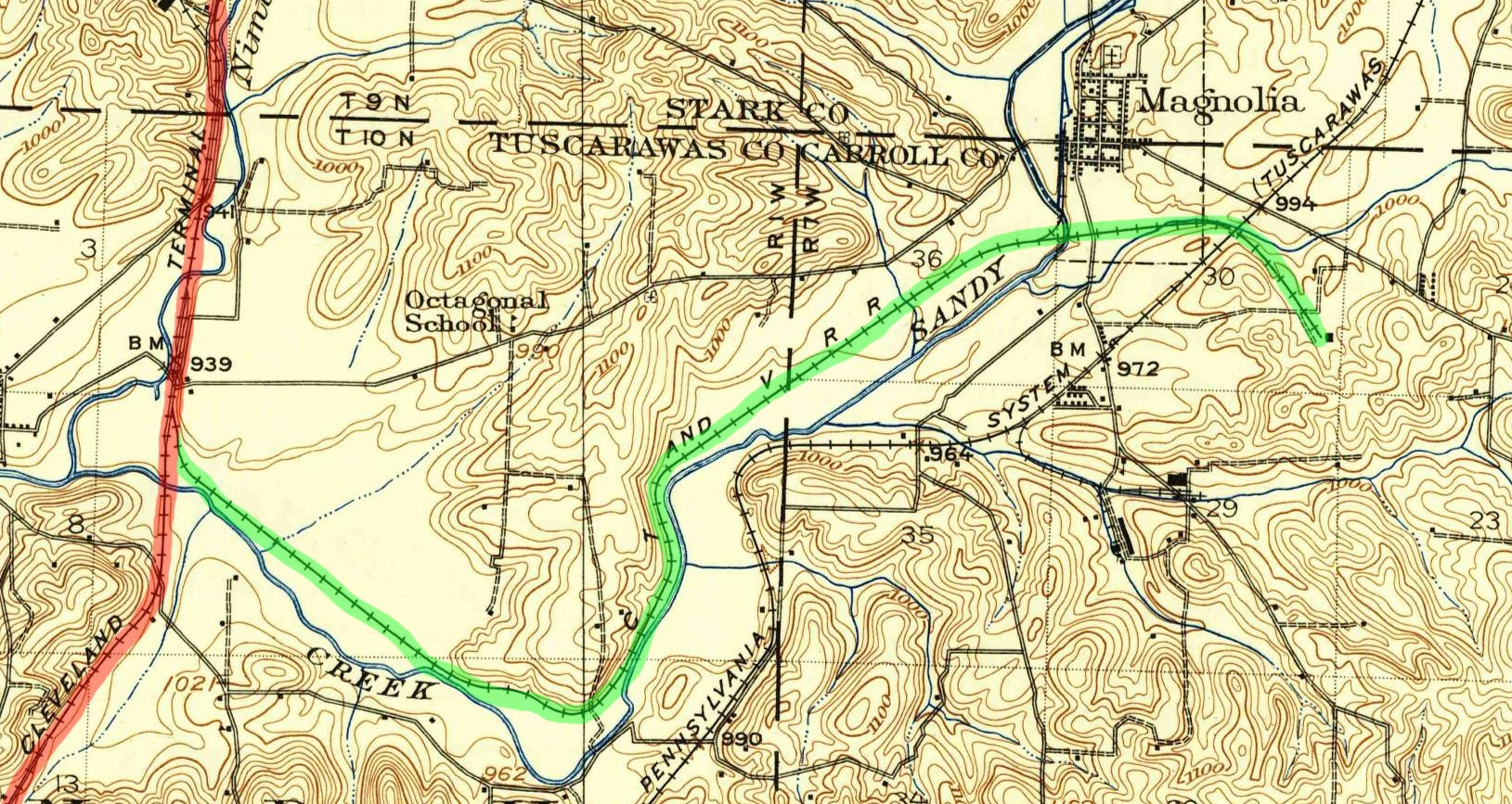 Map of the Cleveland, Terminal and Valley Railway (formerly the Valley Railway) in Tuscarawas County, Ohio, in the United States in 1912. The map shows the main line of the railway (highlighted in red), with the Magnolia Branch (highlighted in green).